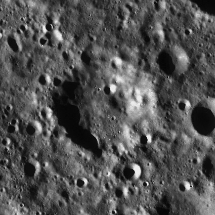 Cooper lunar crater - LROC image